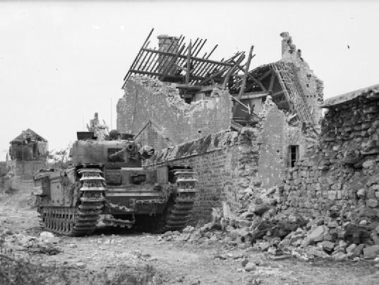 THE BRITISH ARMY IN THE NORMANDY CAMPAIGN 1944. A Churchill tank in the shattered village of Maltot.